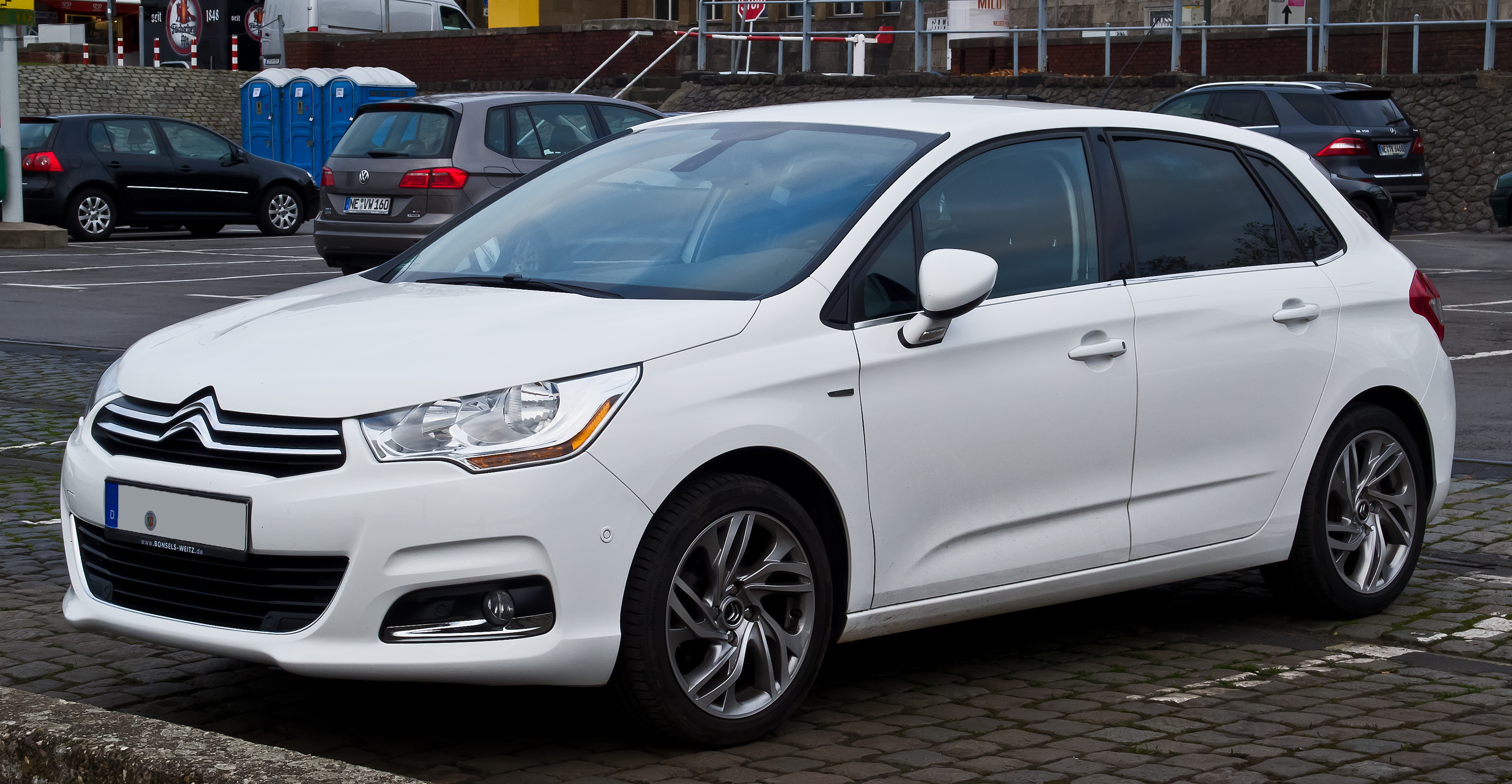 Citroën C4 Exclusive (II)